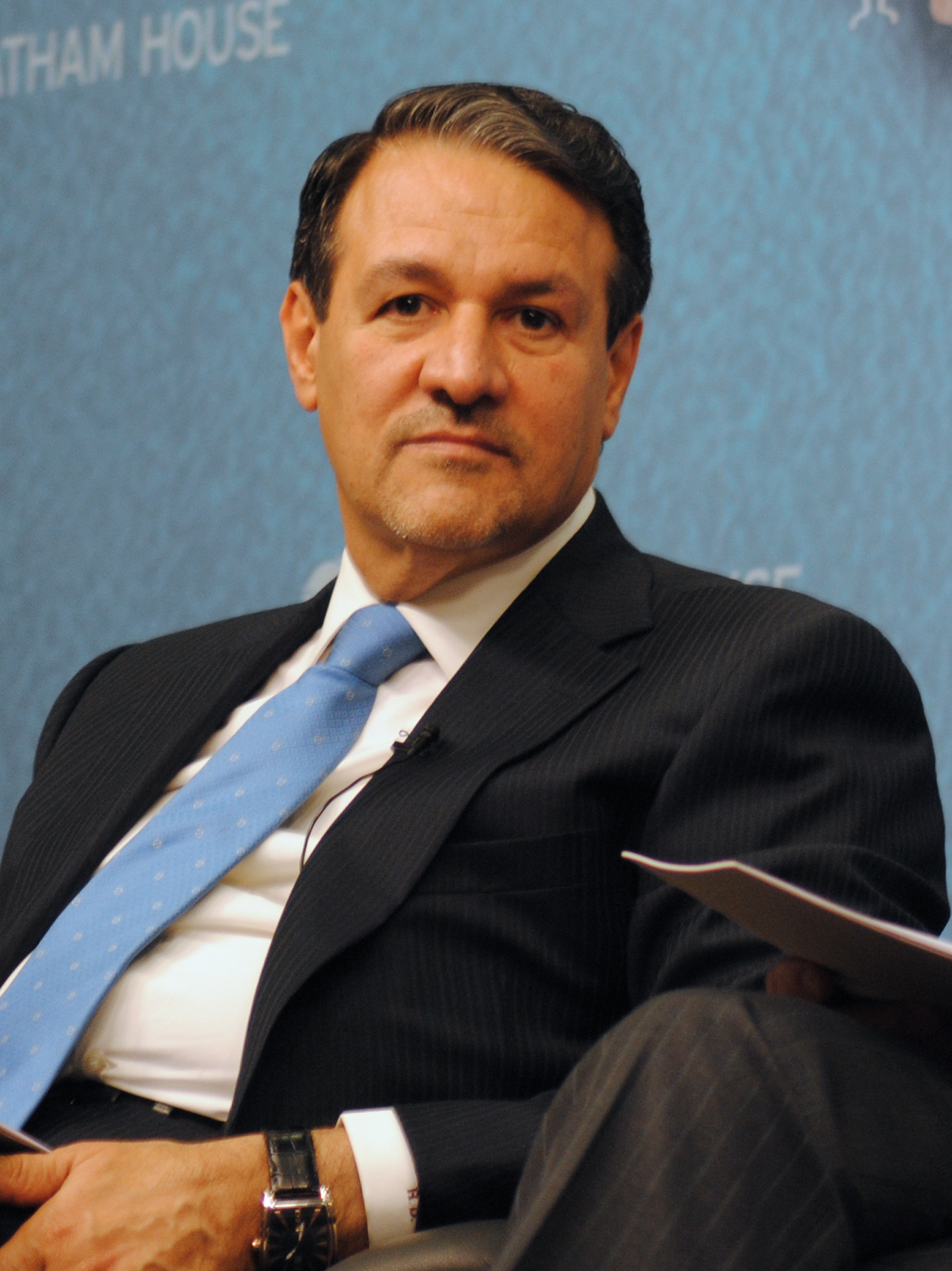 HE Dr Ali Al-Dabbagh. Iraq: Searching for Stability in an Unstable Region, 19 June 2012